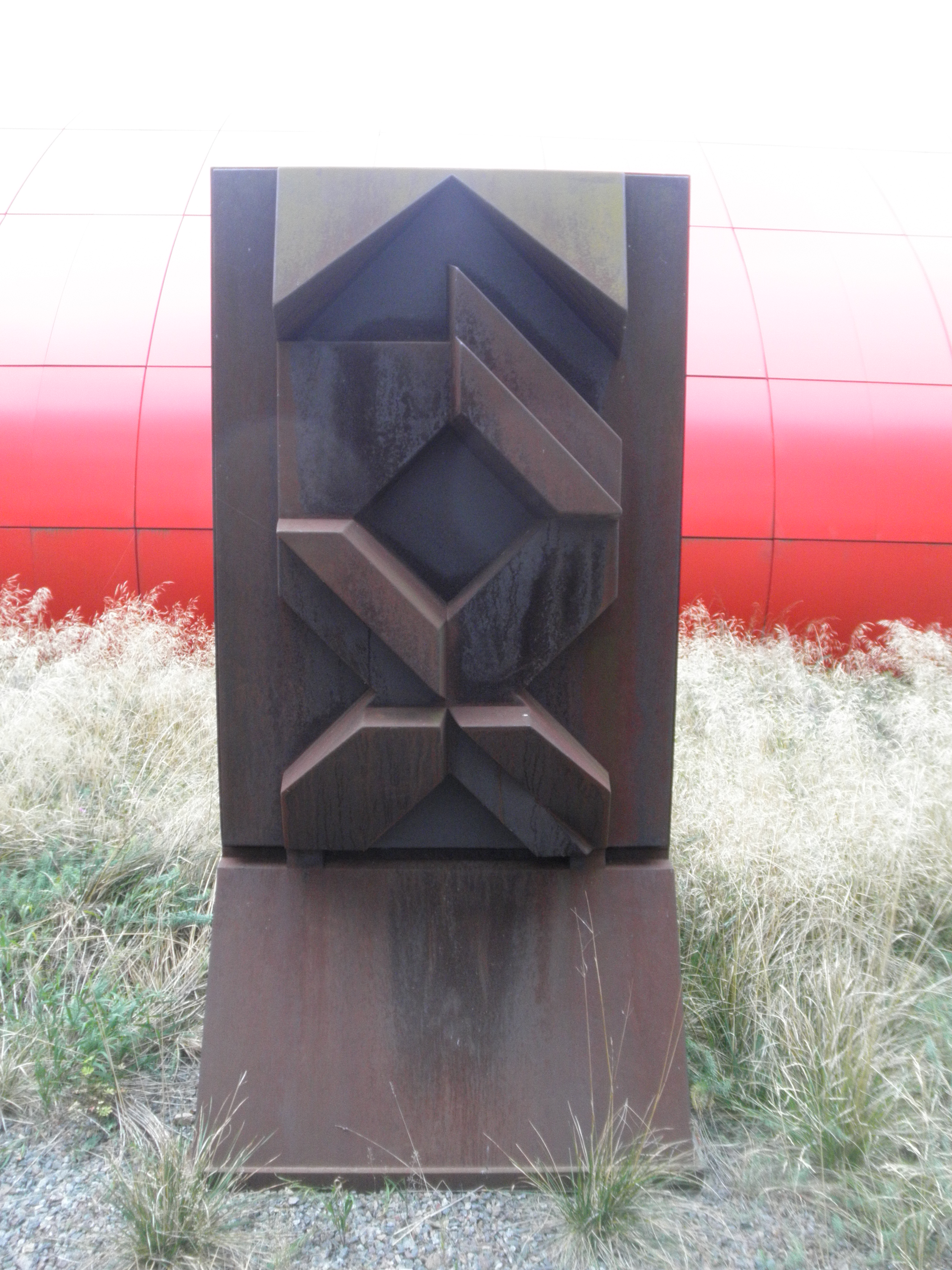 Sculpture Reliefplastik of cast iron by Otto Herbert Hajek in Masaryk University Campus, Brno, Czech Republic. Made in 1977-1986.